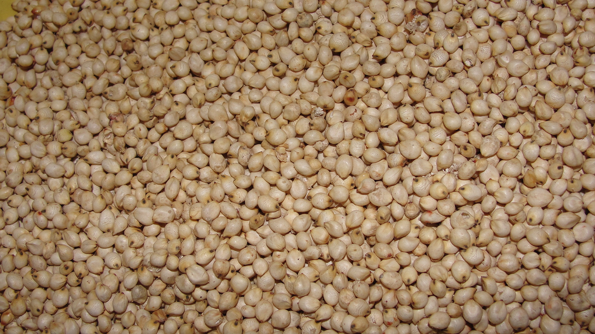 A closeup of white sorghum